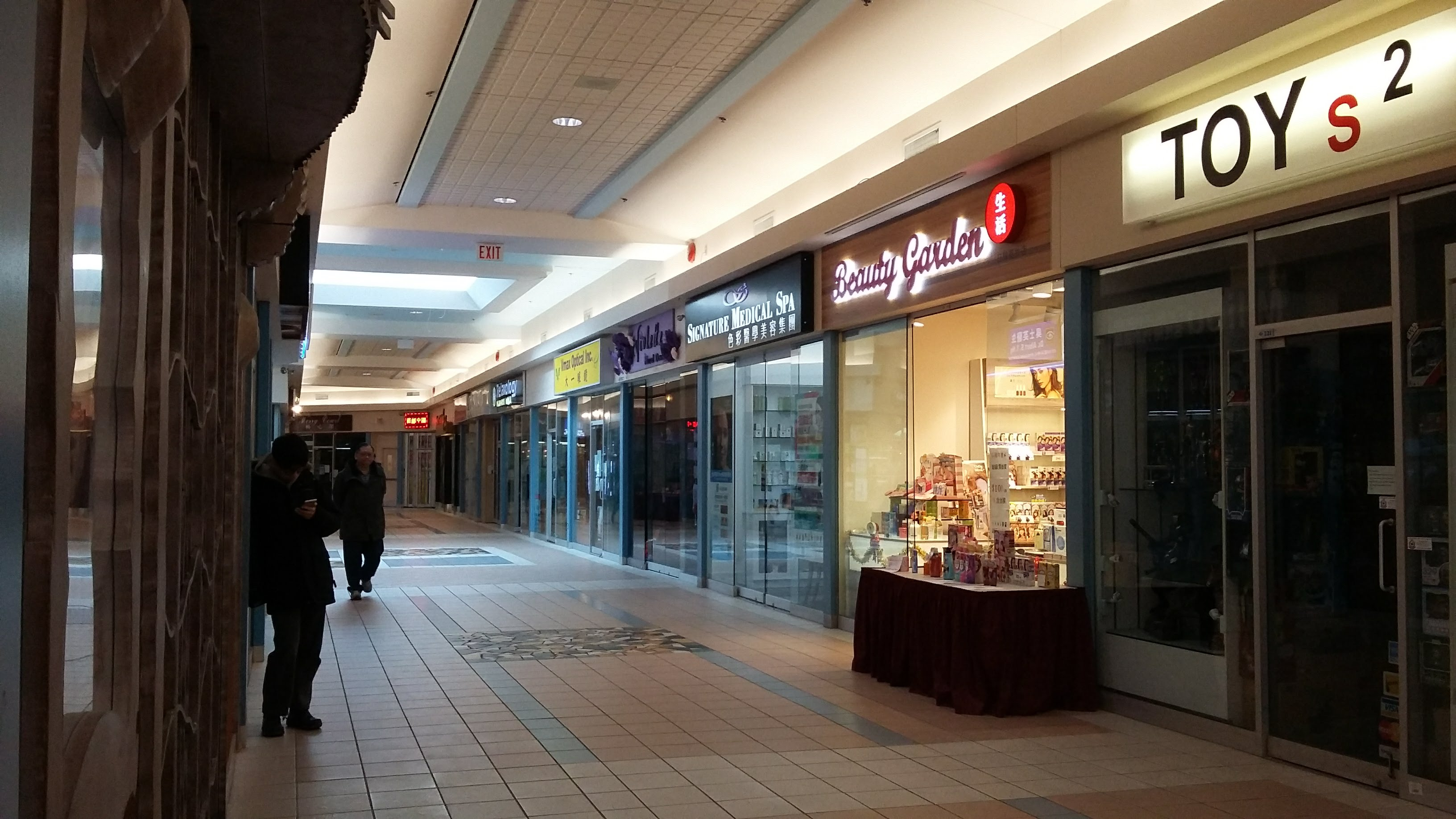 This was the best shot I managed to get inside that mall. All the others were either too bright or too dark. Also the GPS coordinates were off by a full kilometre.